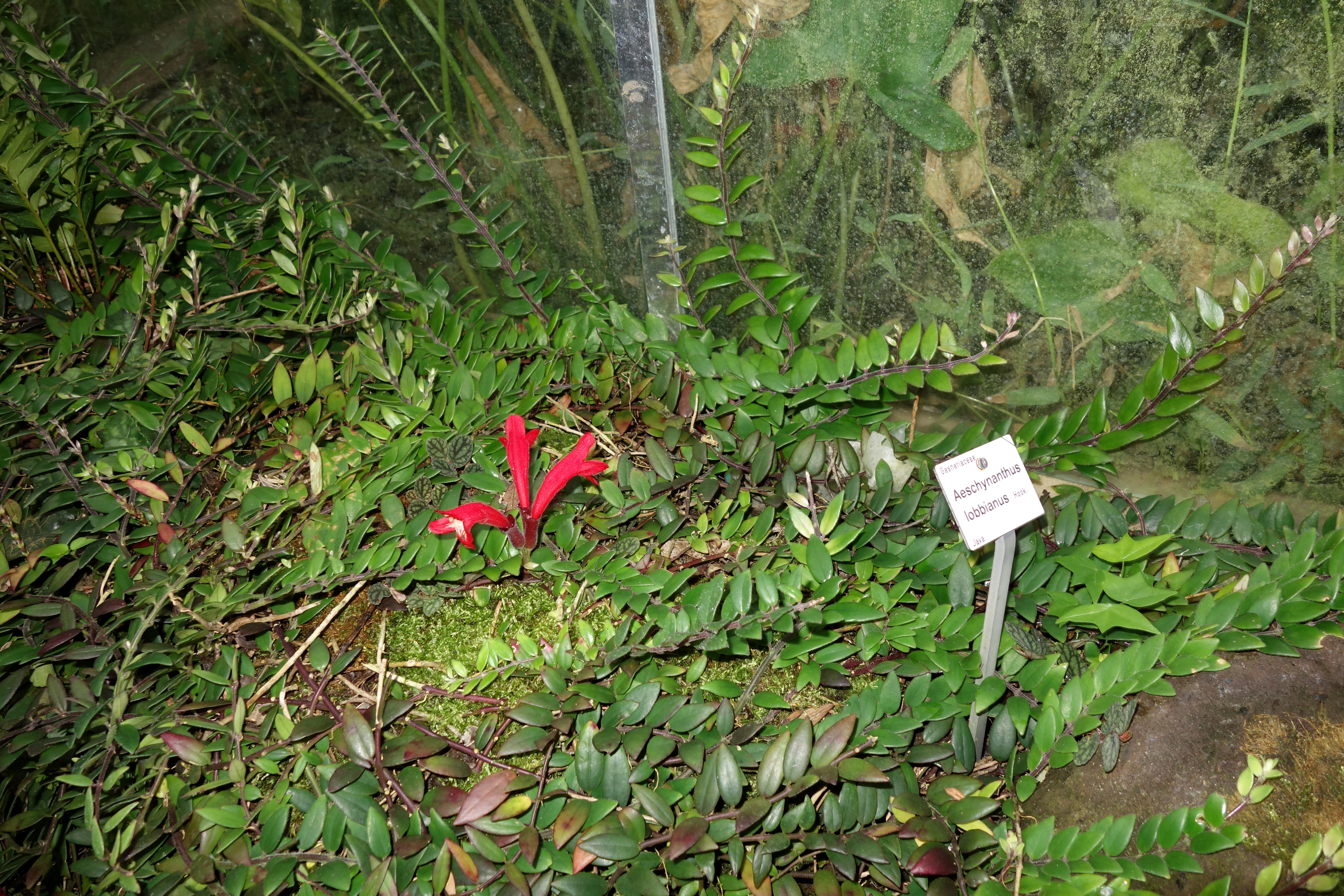 Botanical specimen in the Botanischer Garten, Dresden, Germany.